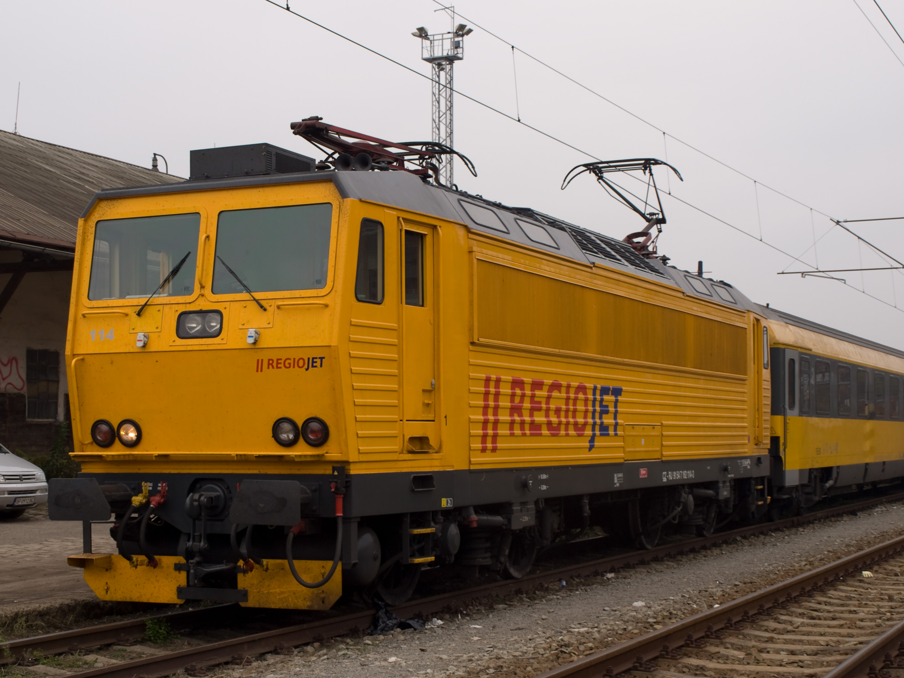 Locomotive Class 162 114-3, train of RegioJet at Praha-Smíchov, severní nástupiště Tato série fotografií vznikla za laskavého svolení společnosti Student Agency – RegioJet